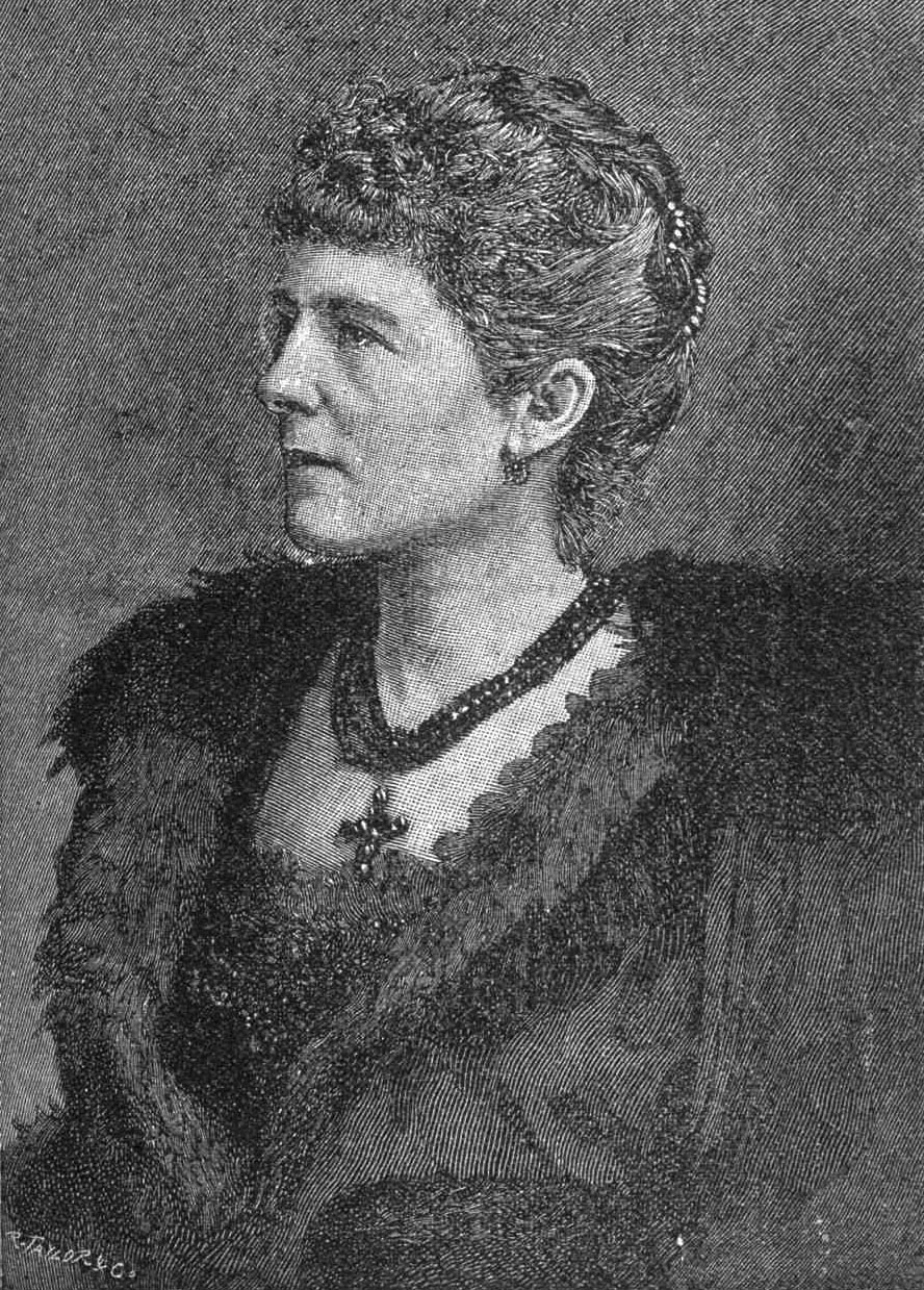 Hariot Hamilton-Temple-Blackwood, Marchioness of Dufferin and Ava, etching from Le Monde illustré